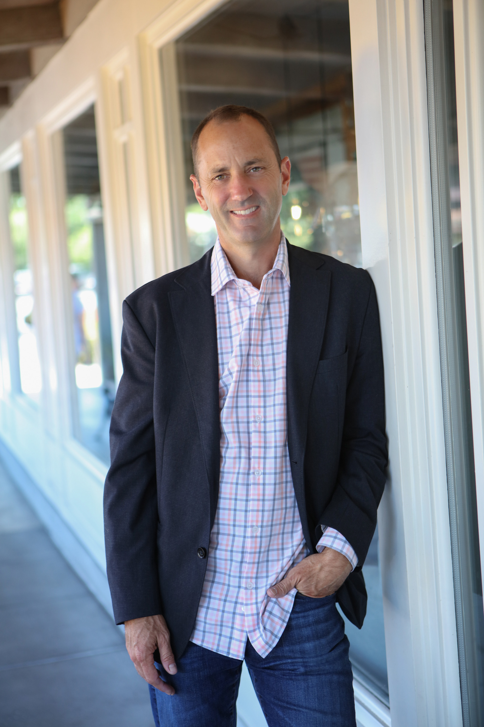 David Estrada, Silicon Valley lawyer, in Palo Alto